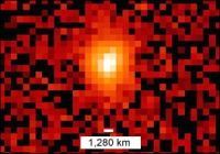 Photo which was used to measure size of Quaoar.